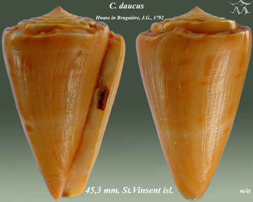 Conus daucus 1